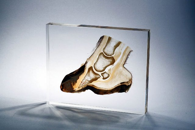 Sheet plastinate of an equine hoof with rotation of pedal bone after laminitis; Specimen by HC Biovision Dr. Christoph von Horst